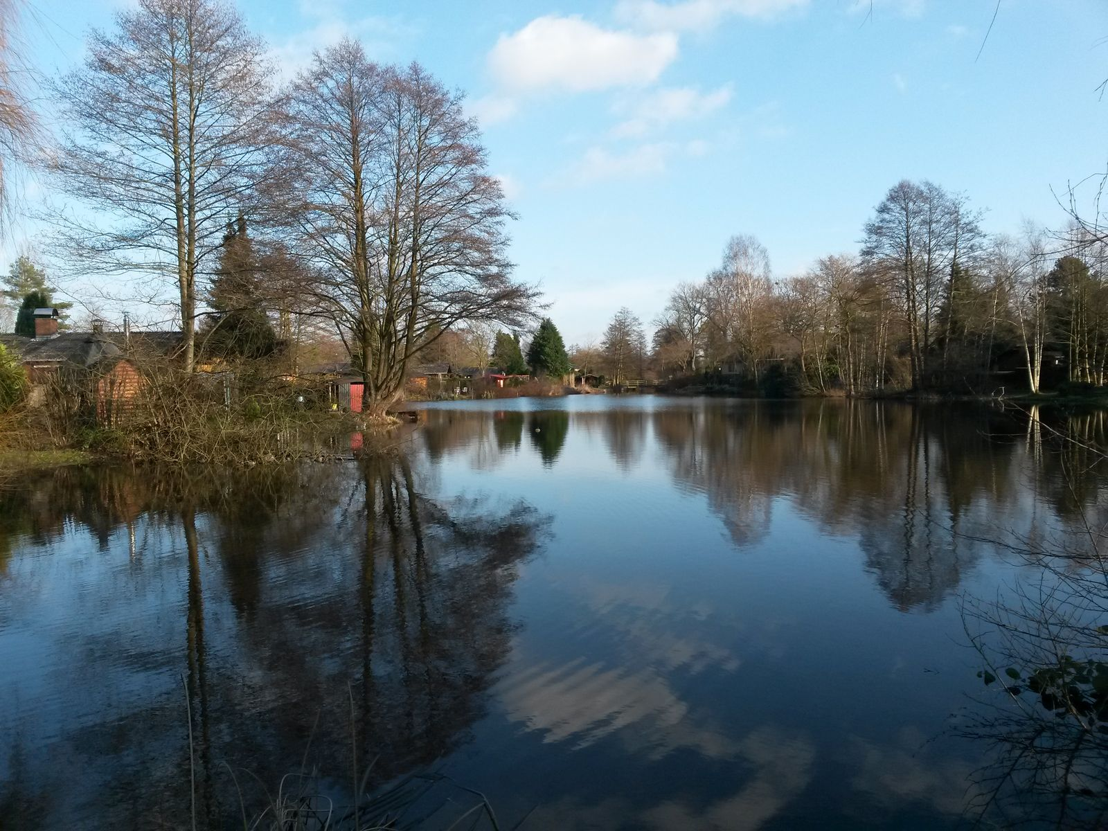 Wümmepark